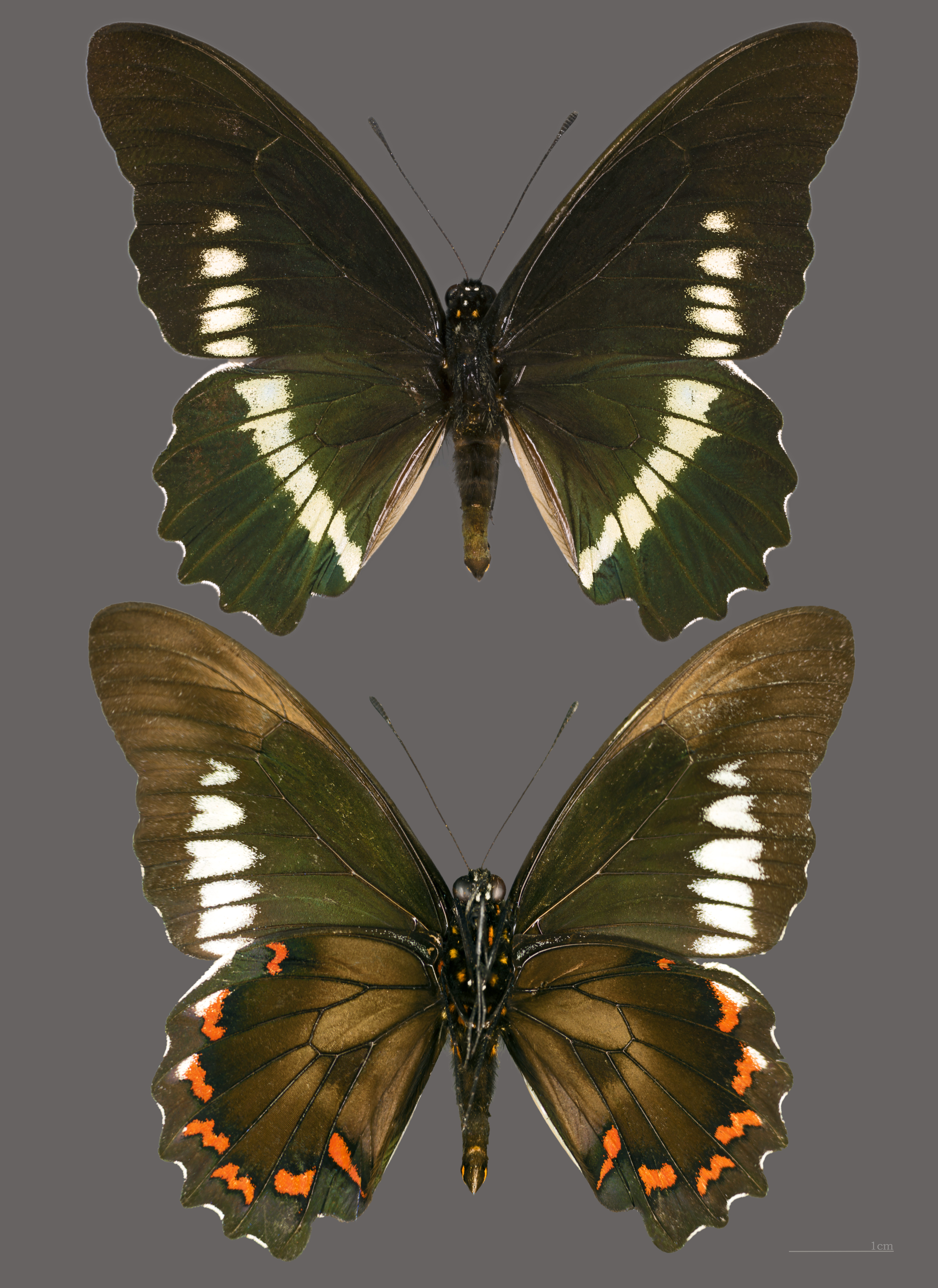 Battus polydamas neodamas, Two views of same specimen.